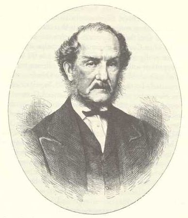 Isaac Featherston as the first Superintendent of the Wellington Province, and was a Member of the first four New Zealand Parliaments.